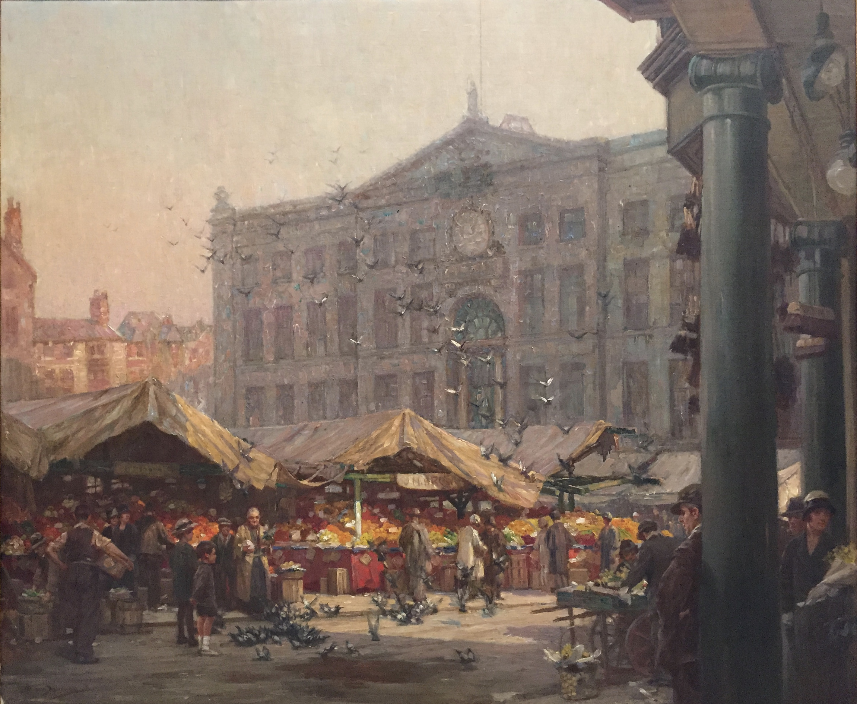 In Nottingham Museum and Gallery